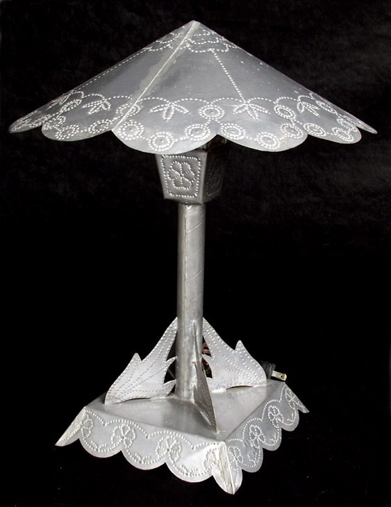 Tinware Desk Lamp. Civilian Conservation Corps enrollees made desk lamps like this one for use in the lodge cabins. Late 1930s. Tin. W 34.0, H 42.5, D 20.0 cm [H 16 ¾, W 13 ½, d 7 ¾ inches] Bandelier National Monument, BAND 16645